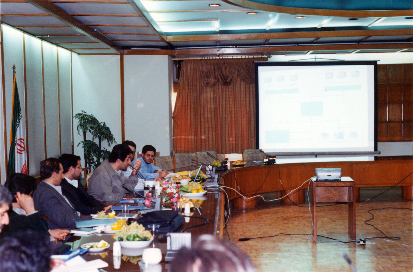 Workshop held on the first application of online degree programs in Iran by Alireza Nasiri